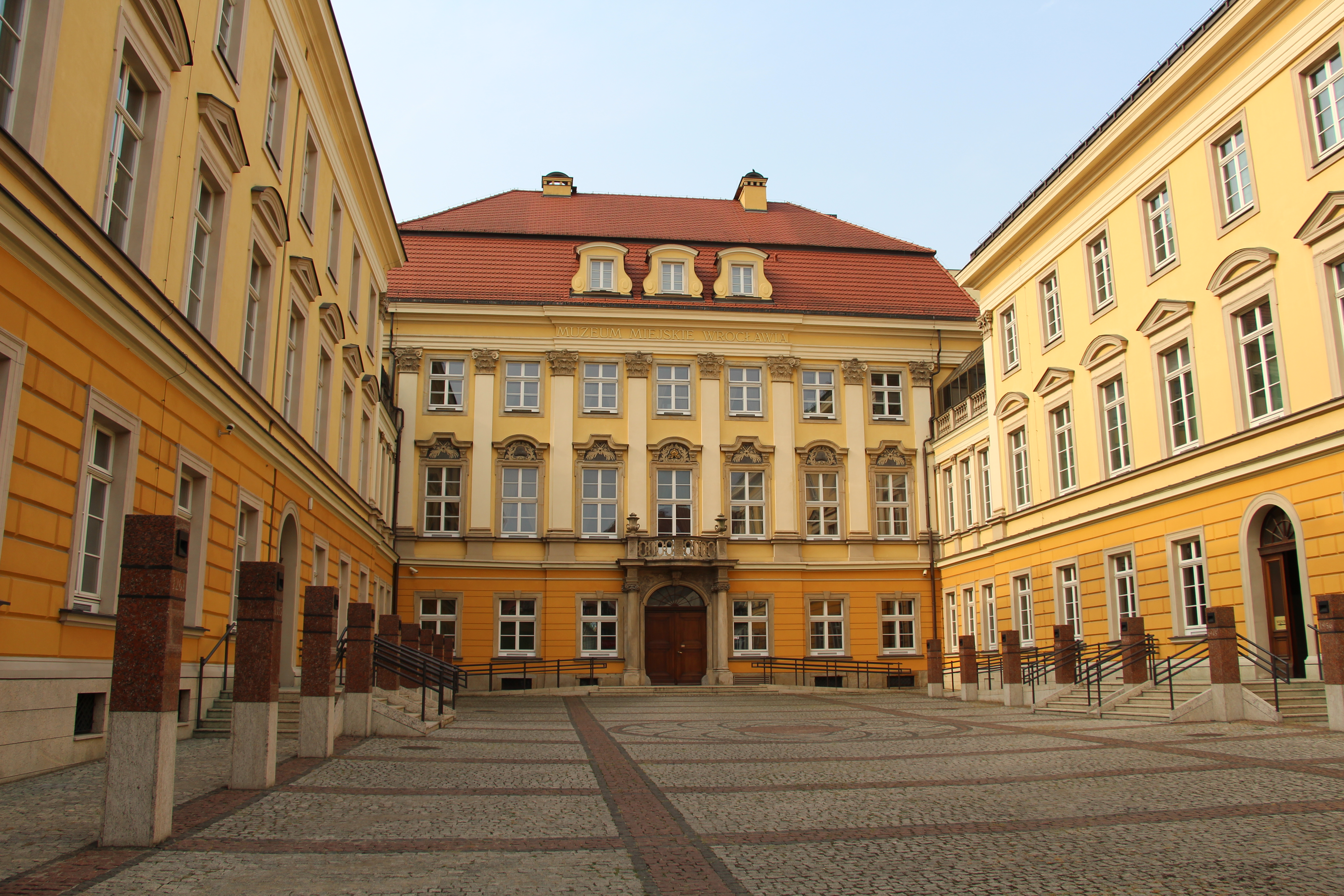 Kazimierza Wielkiego The Royal Palace - former Stadtschloss - is a palace of the Prussian monarchy, it now houses the city museum. Initially a Baroque palace of Heinrich Gottfried von Spätgen, chancellor of Bishop Francis Louis of Neuburg, it was built in 1717 in a Viennese style. In 1750, after Prussia took control over Silesia in the First Silesian War, the palace was purchased by the Prussian king Frederick the Great and was converted into his residence. In May 1945 the palace was heavily damaged during the siege of the city at the end of the Second World War. In 2008 a renovation was finished and a new museum was established, presenting 1,000 year history of Wrocław.